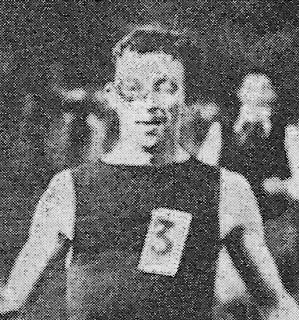 Michel Théato, winner in the marathon run at the 1900 Olympic Games photography, adapted reproduction, no restrictions on use